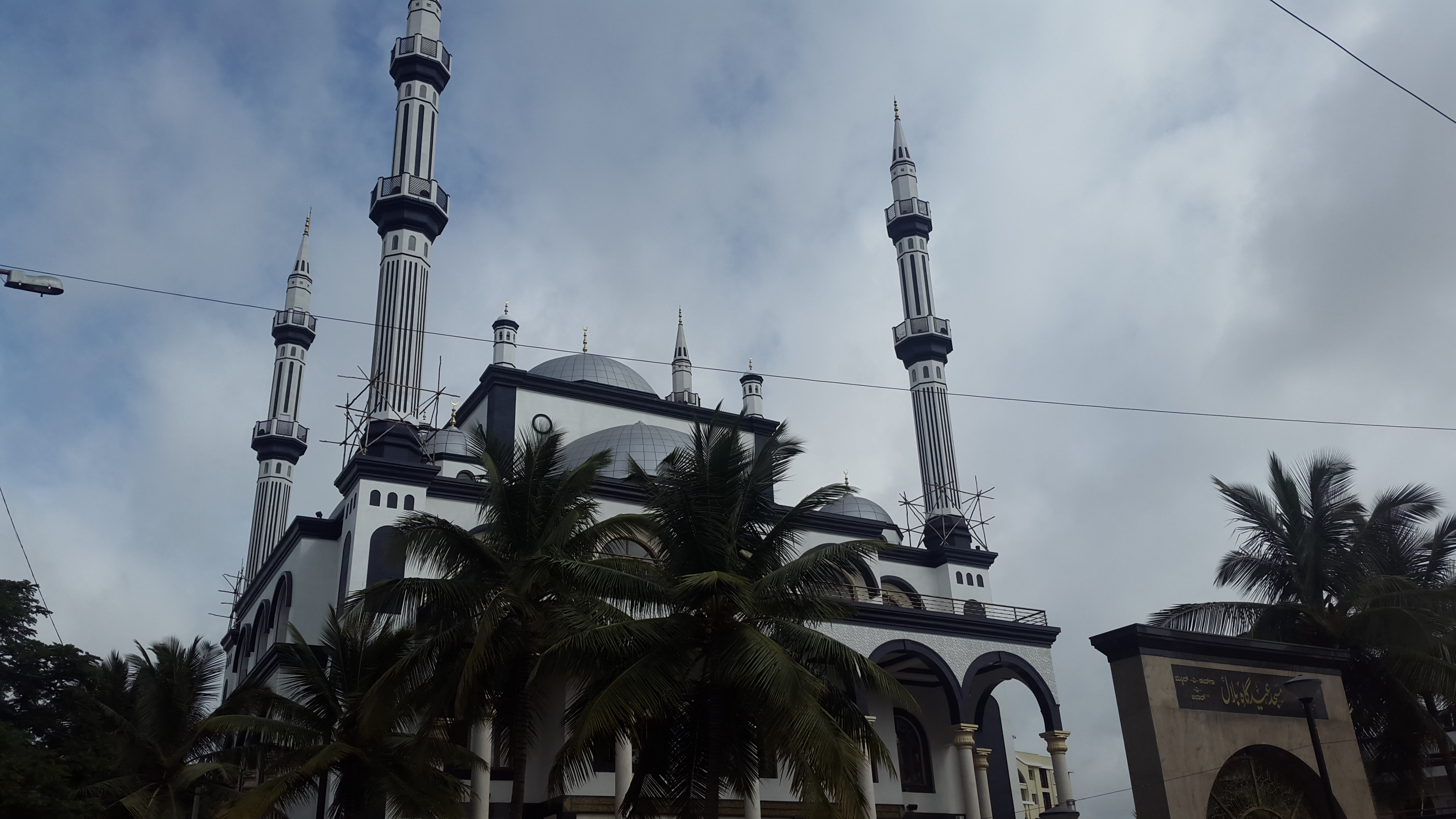 Bilal Mosque at Bangaluru